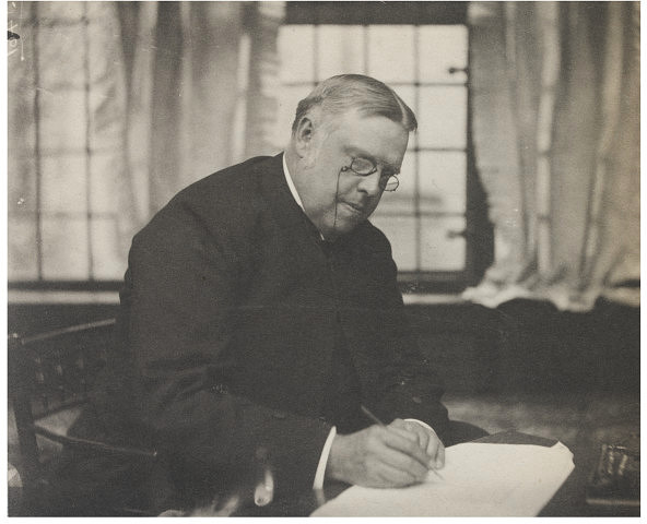 Museum descriptiuon: Portrait of Reverend McVickey, Bishop of Rhode Island, Portraits of many persons of note photographed by Frederick Hollyer, Vol. 3, platinum print, ca. 1890, probably = William N. McVickar (Right Reverend William Neilson McVickar, D. D., L.L. D., consecrated January 27, 1898, as Bishop Coadjutor, since September 7, 1903, third episcopal Bishop of Rhode Island, died at Beverly, Masachusetts, on June 28, 1910.) Victoria and Albert Museum, London, museum no. 7847-1938 (Link)